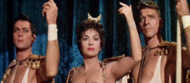 L. to R. : Tony Curtis, Gina Lollobrigida & Burt Lancaster in Trapeze - trailer (cropped screenshot)